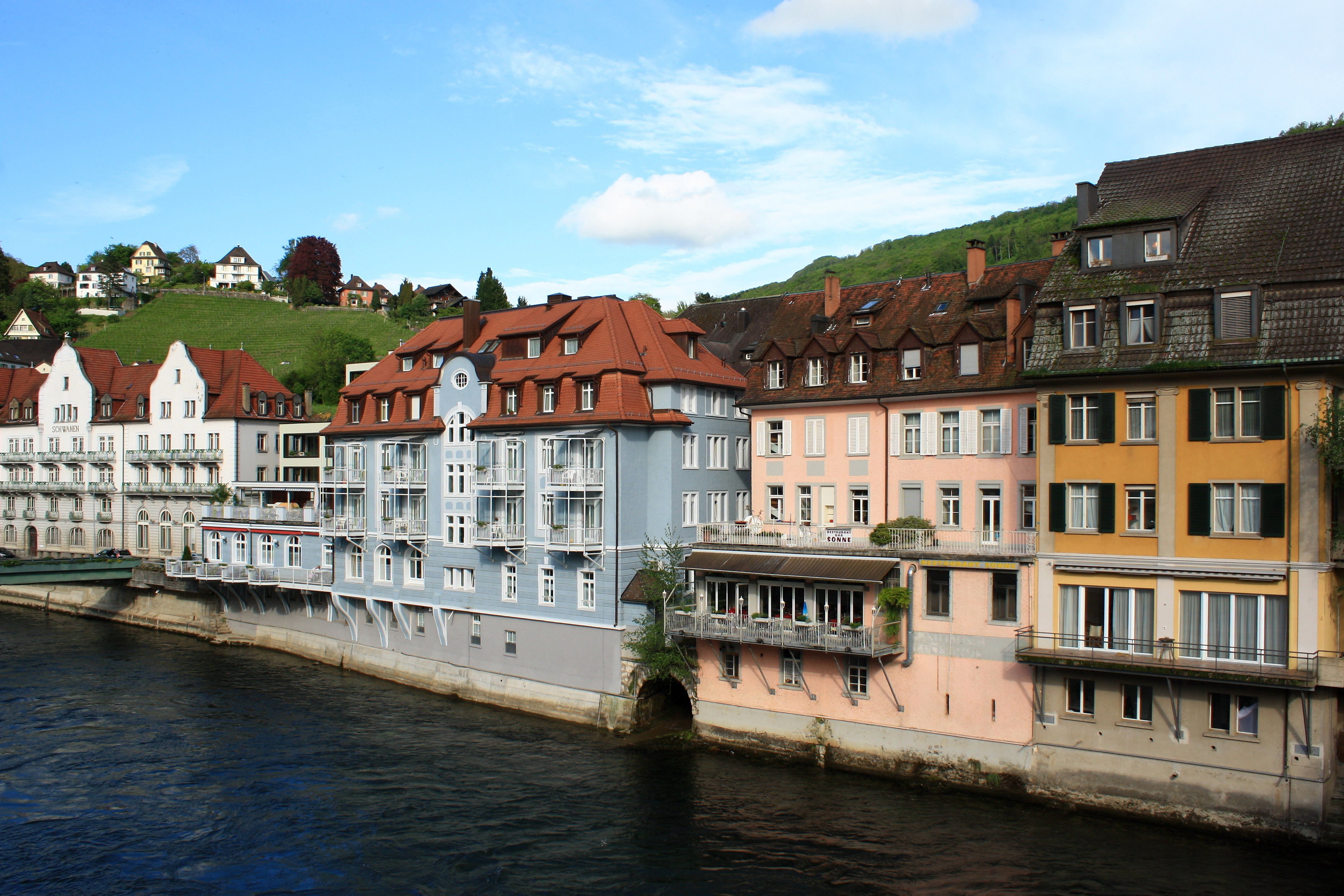 Limmat in Ennetbaden (Switzerland) as see from Schiefe Brücke